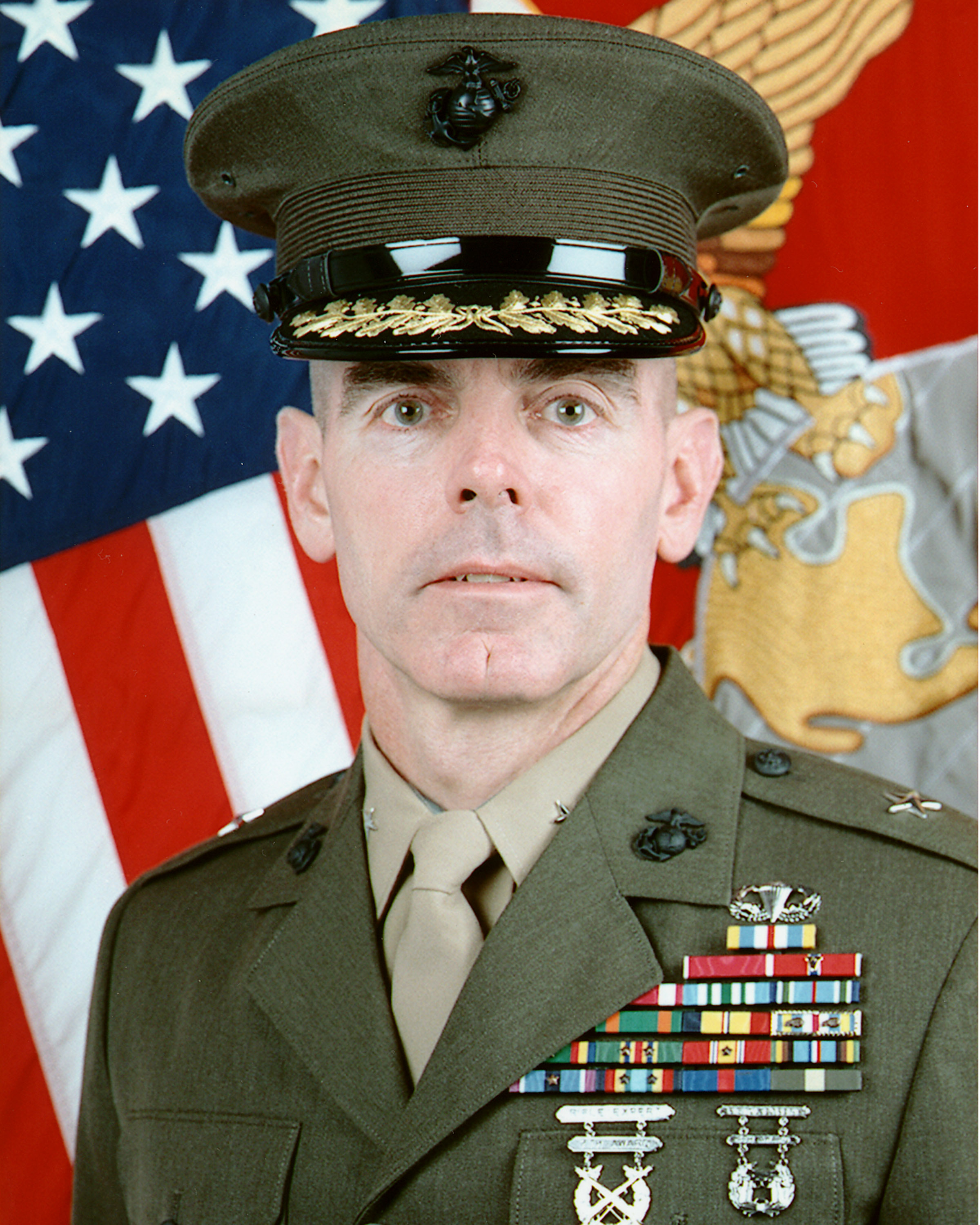 Brigadier Gen James McMenamin